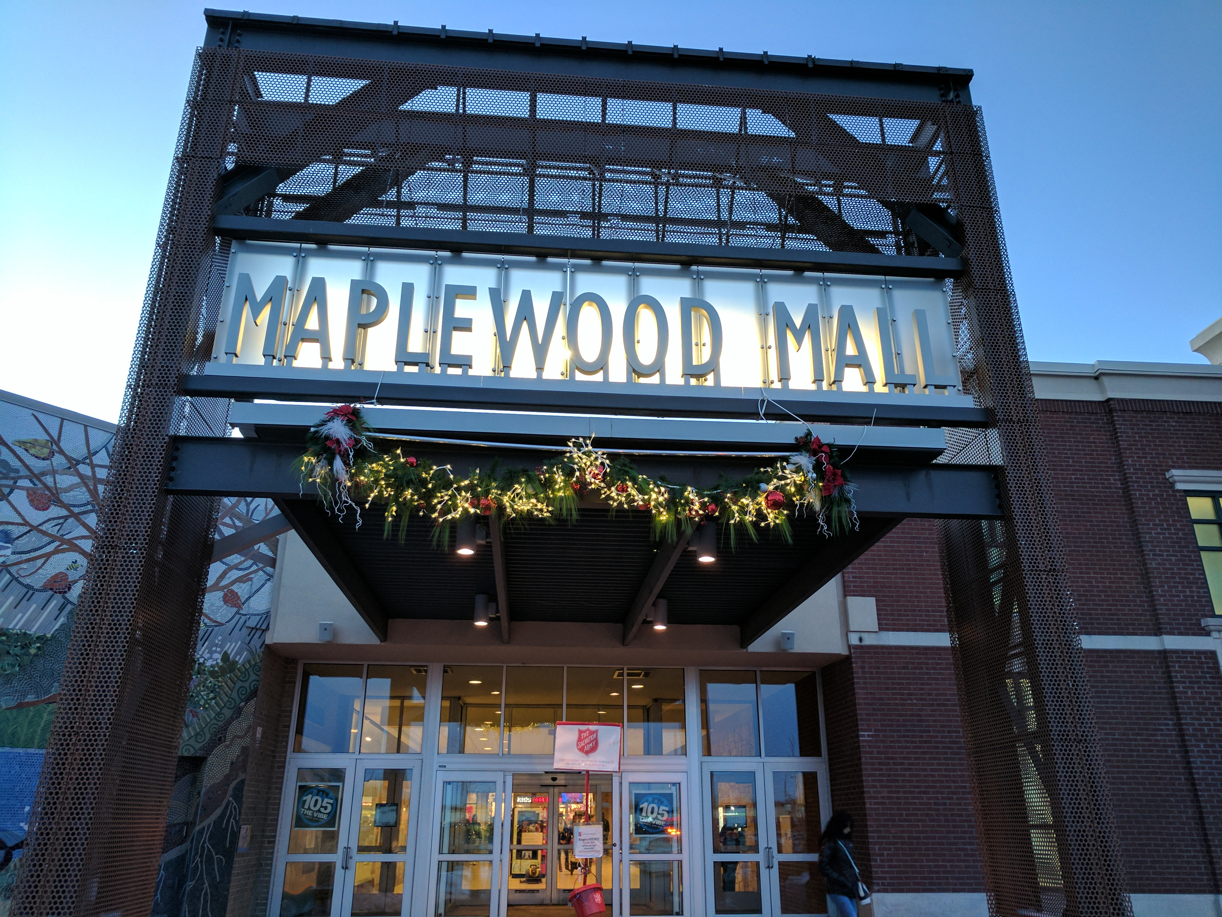 Front sign of the Maplewood Mall in Maplewood, Minnesota - December 2016